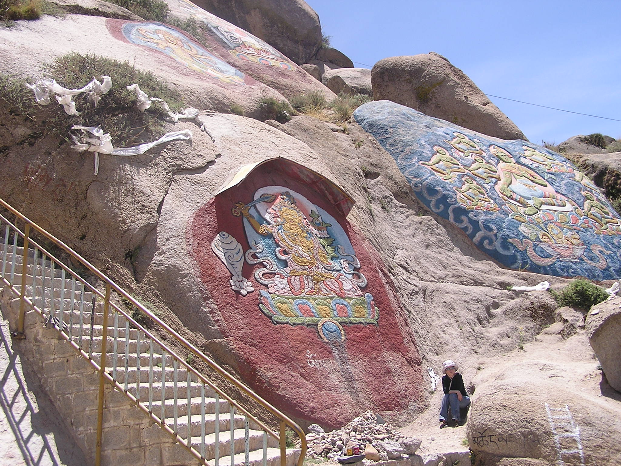 Carved stone reliefs — near Sera Monastery.